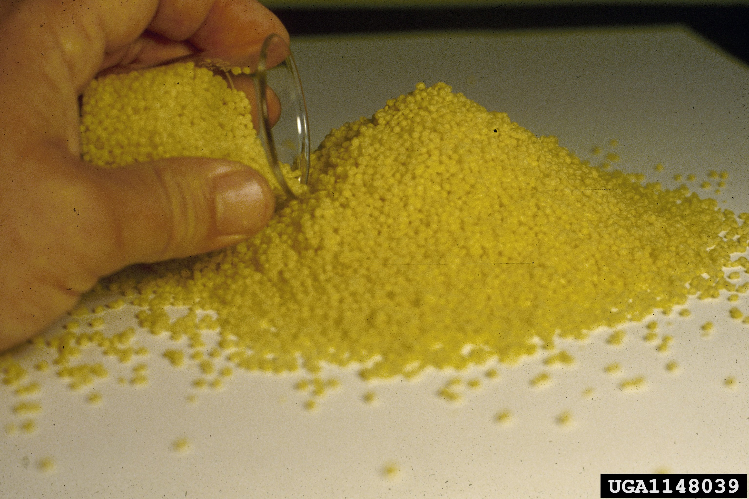 Bait used against S. invicta